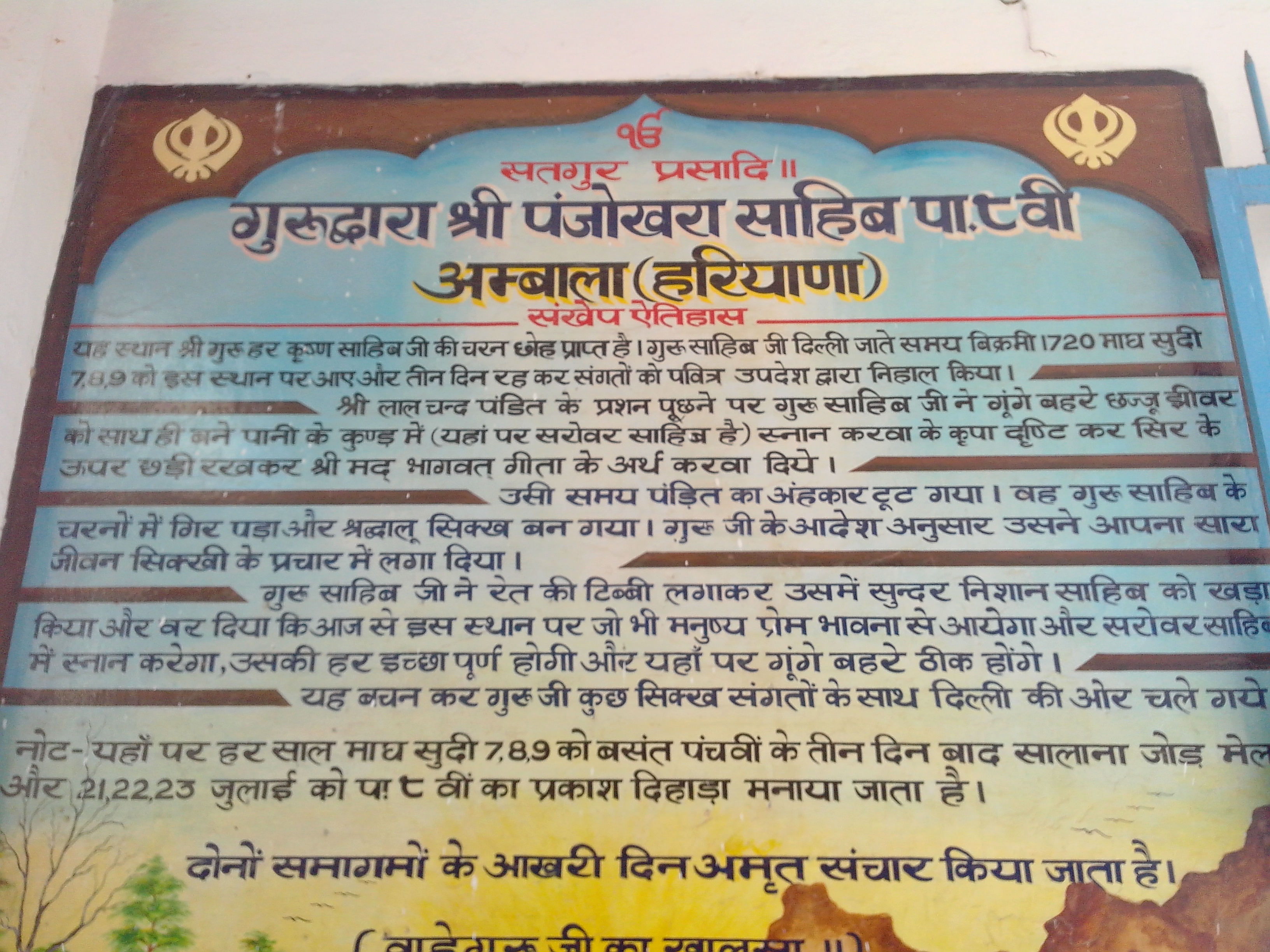 History of Gurudwara Panjokhra Sahib, Haryana